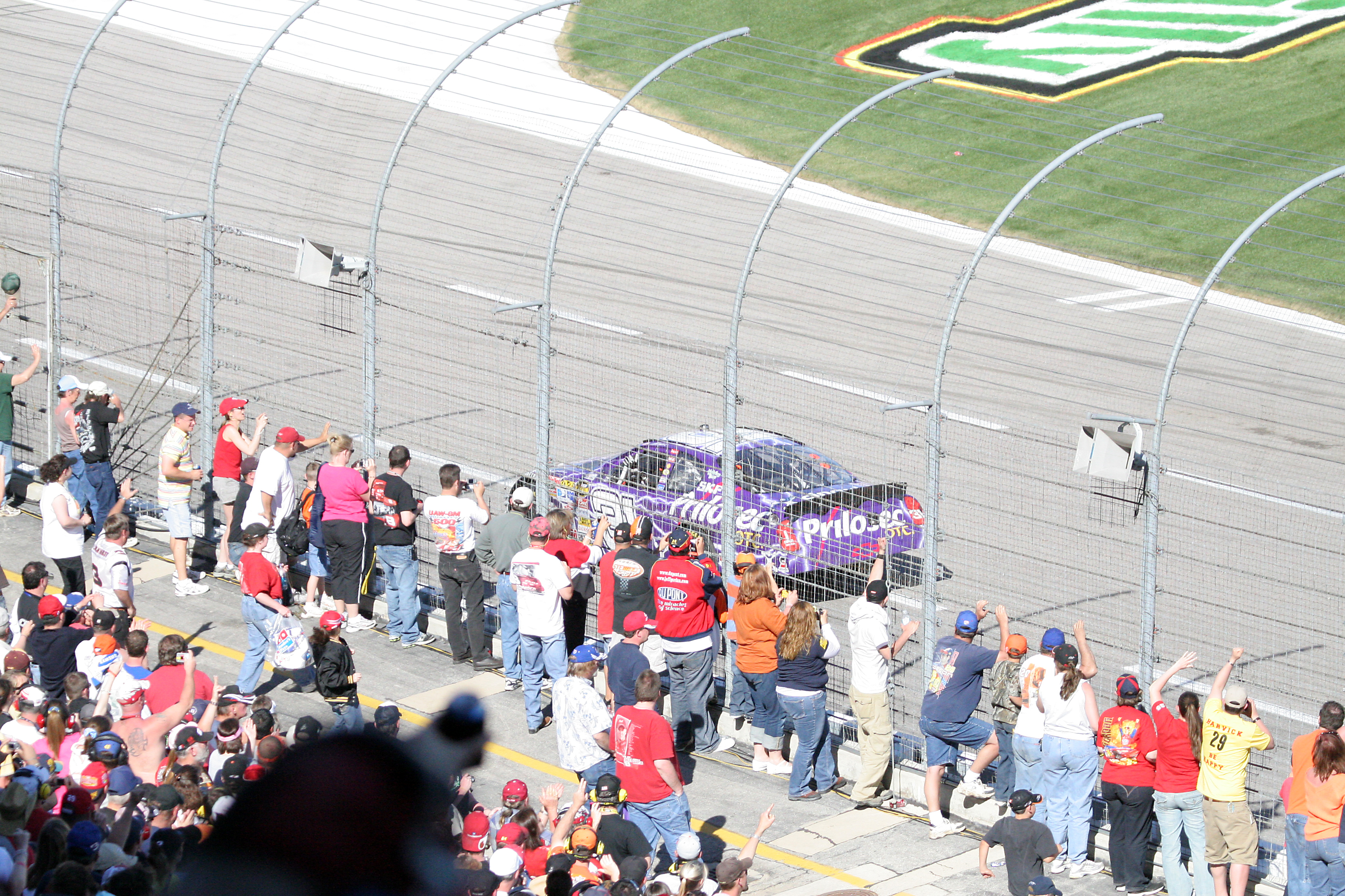 NASCAR driver Jeff Burton doing a victory lap at Texas Motor Speedway in April 2007